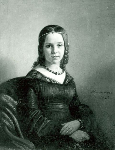 Emilie Preyer, born Lachenwitz, was the wife of the painter Johann Wilhelm Preyer (1803-1889)